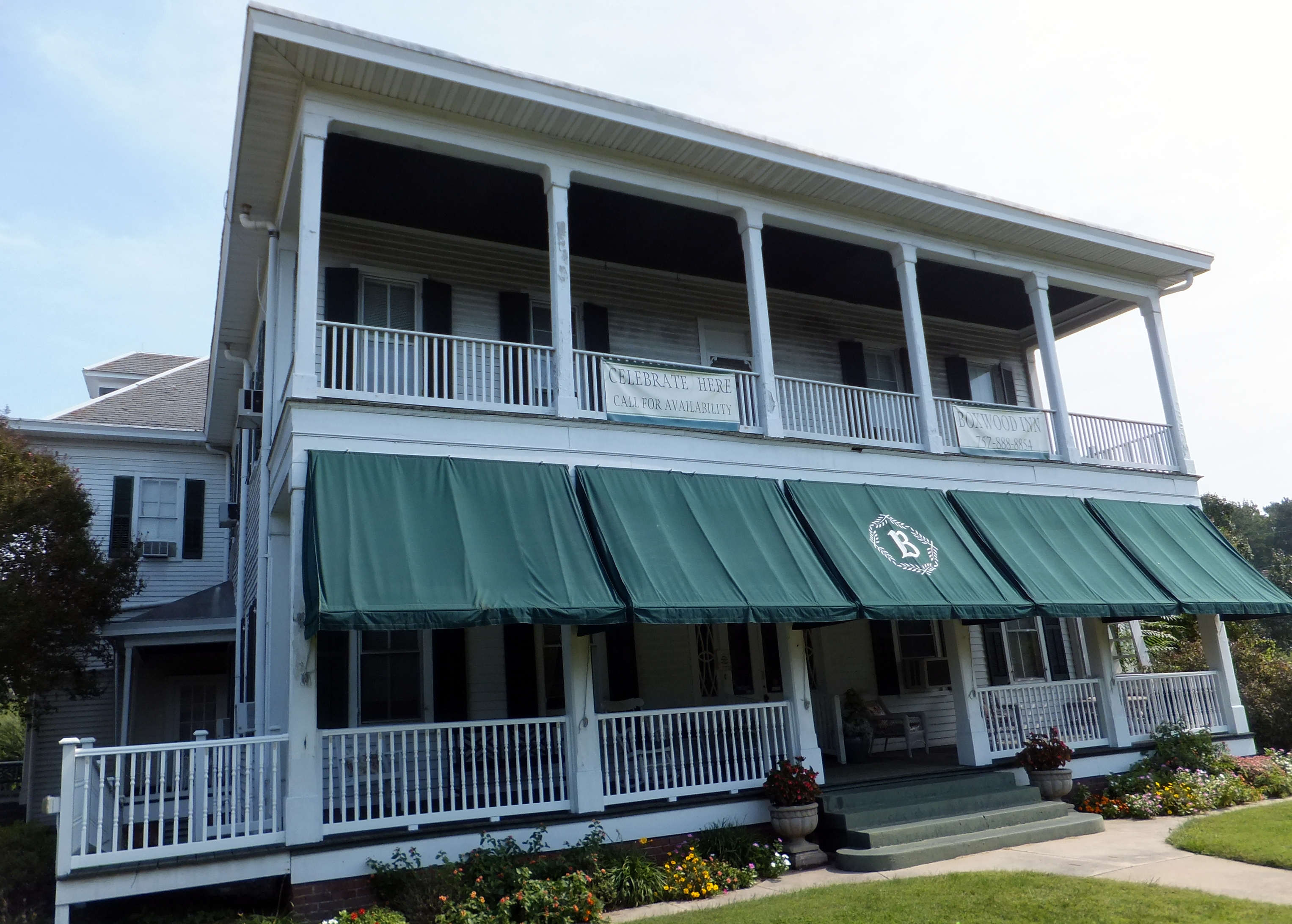 Simon Reid Curtis House The former Simon Reid Curtis House, built in 1896, is now the Boxwood Inn, a bed and breakfast in Newport News, Virginia.